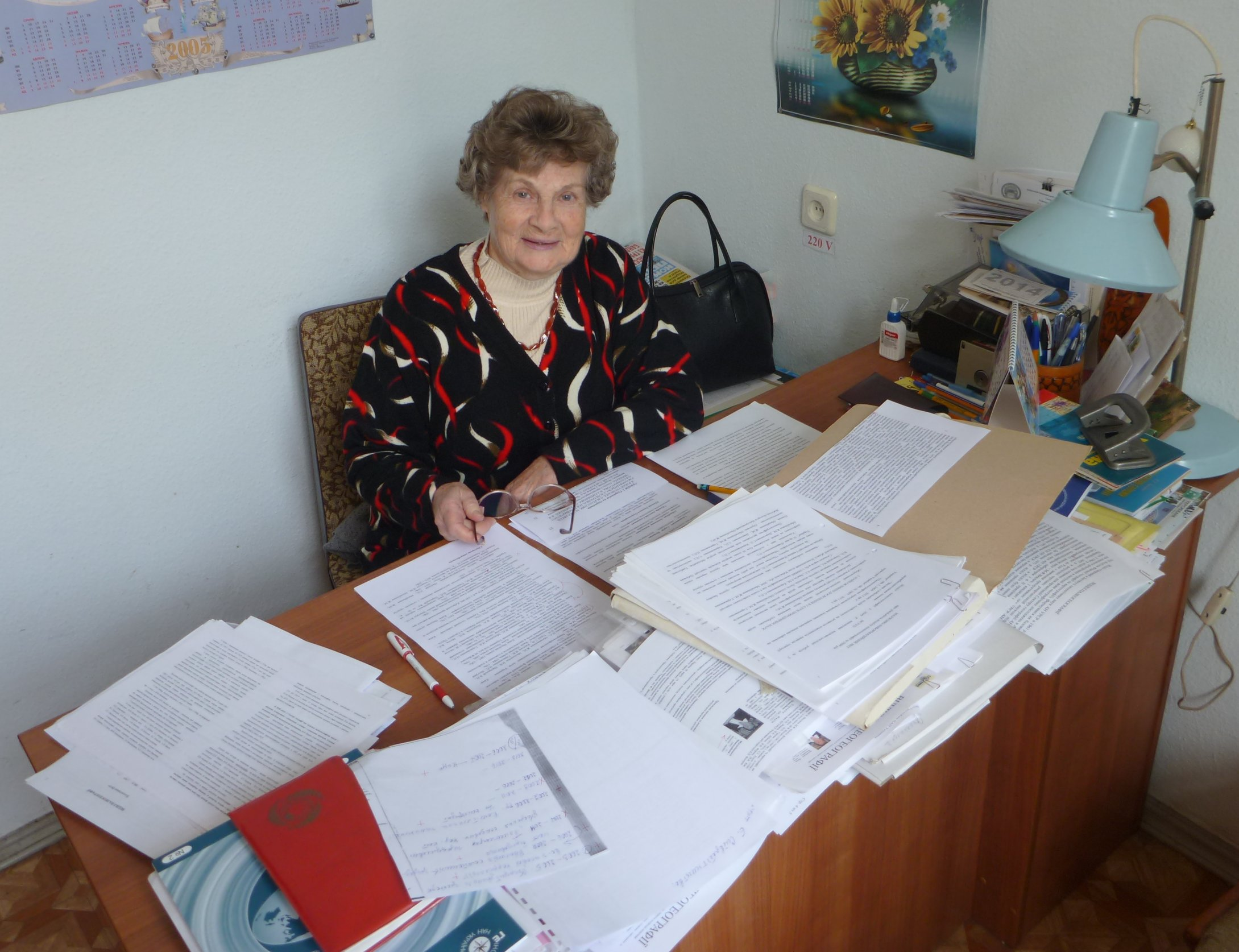 Perederiy Valentina Ivanivna — Ukrainian scientist in the field of paleogeography at workplace